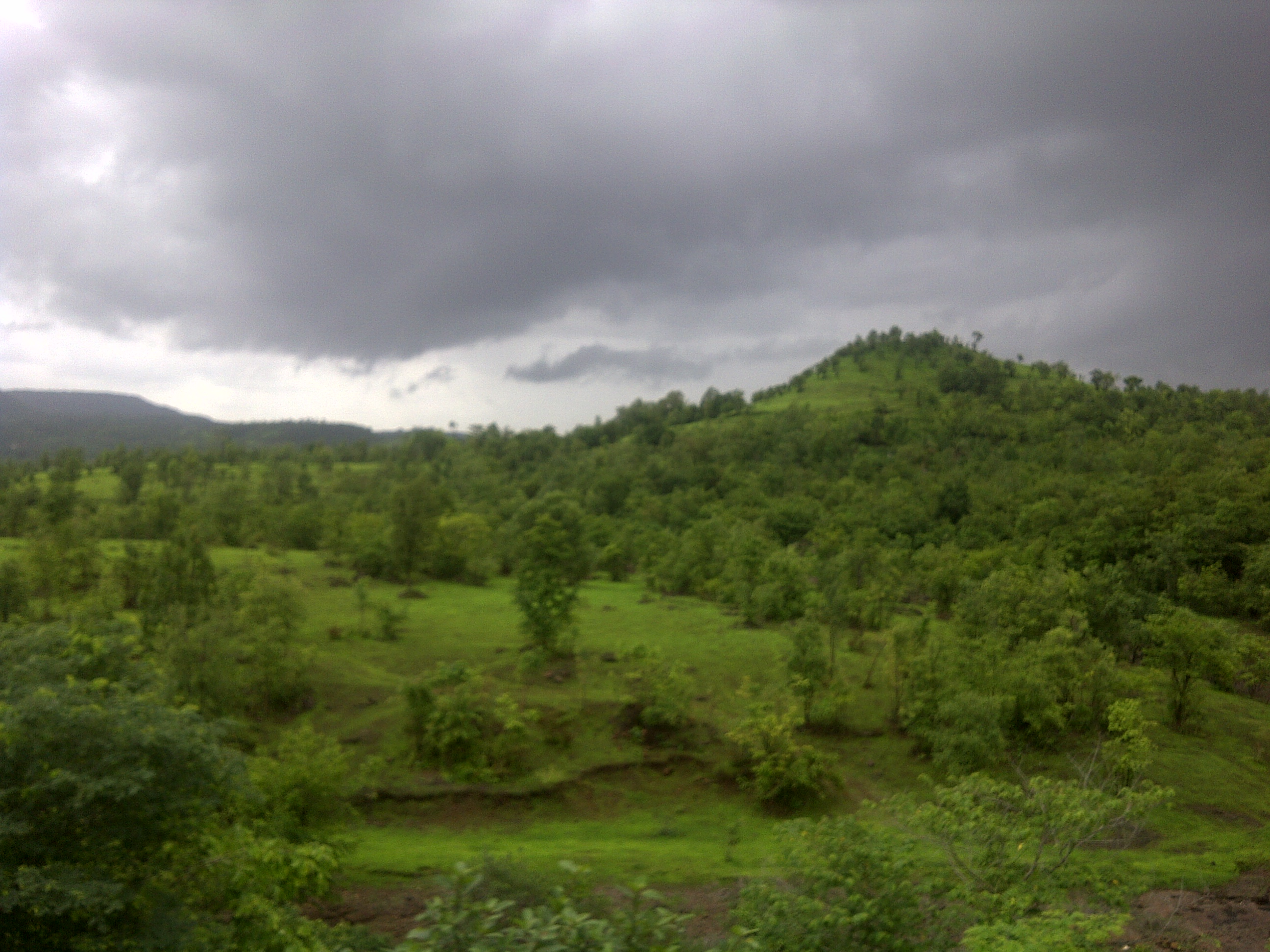 Taken somewhere in Goa while travelling via train to Kerala during the monsoon in year 2014